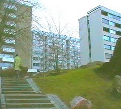 Pic of the Park 'Diakoniapuisto' in Kallio, Helsinki, Finland on 16th of Jan, 2007 - Describes the district of Kallio very well (according to me)